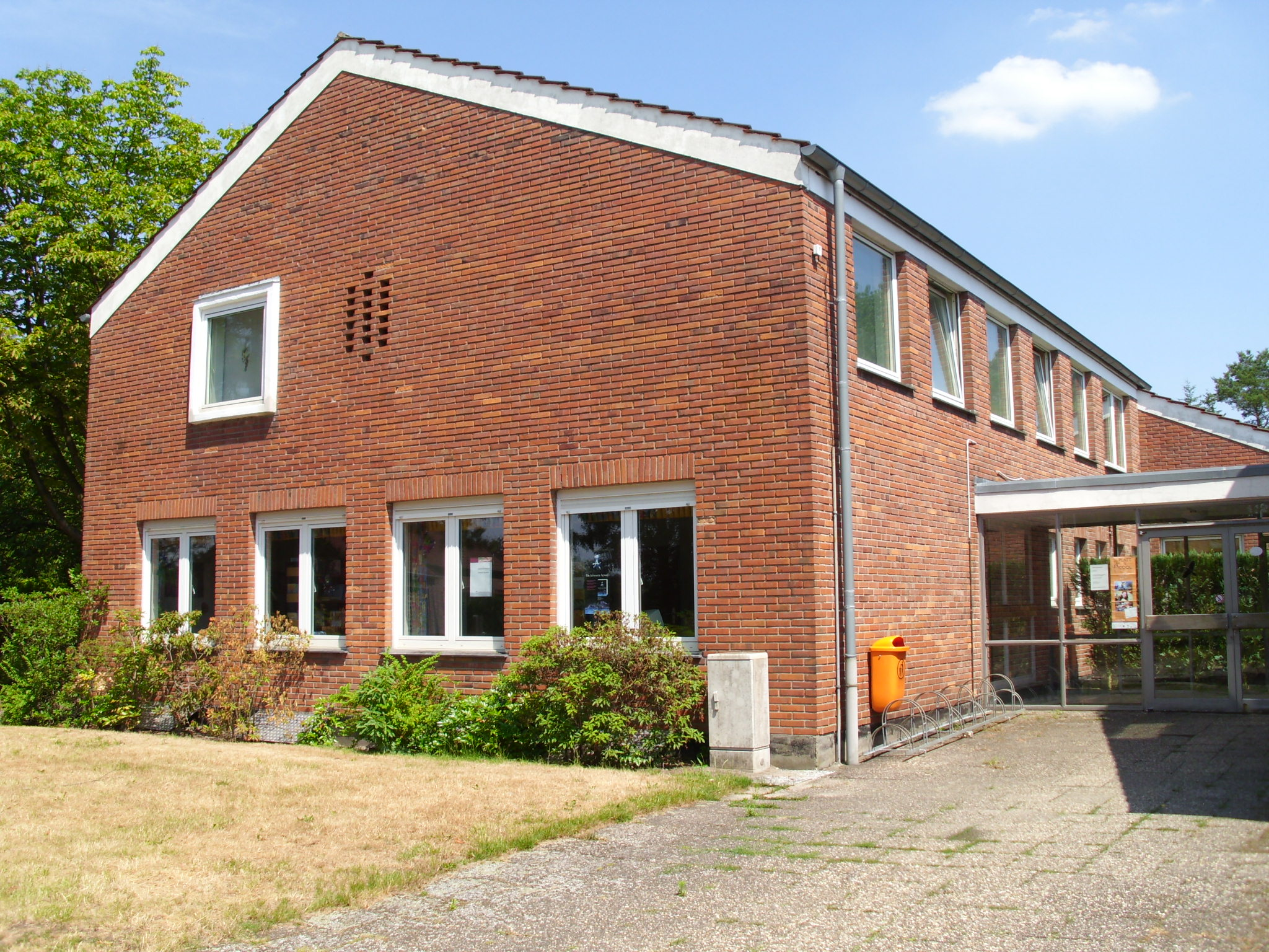 Community centre (Dorfgemeinschaftshaus) of Klausheide (Grafschaft Bentheim)